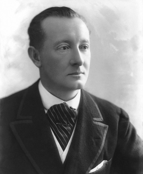 Francis Charles Adalbert Henry Needham, 4th Earl of Kilmorey by Bassano, whole-plate glass negative, 3 February 1920